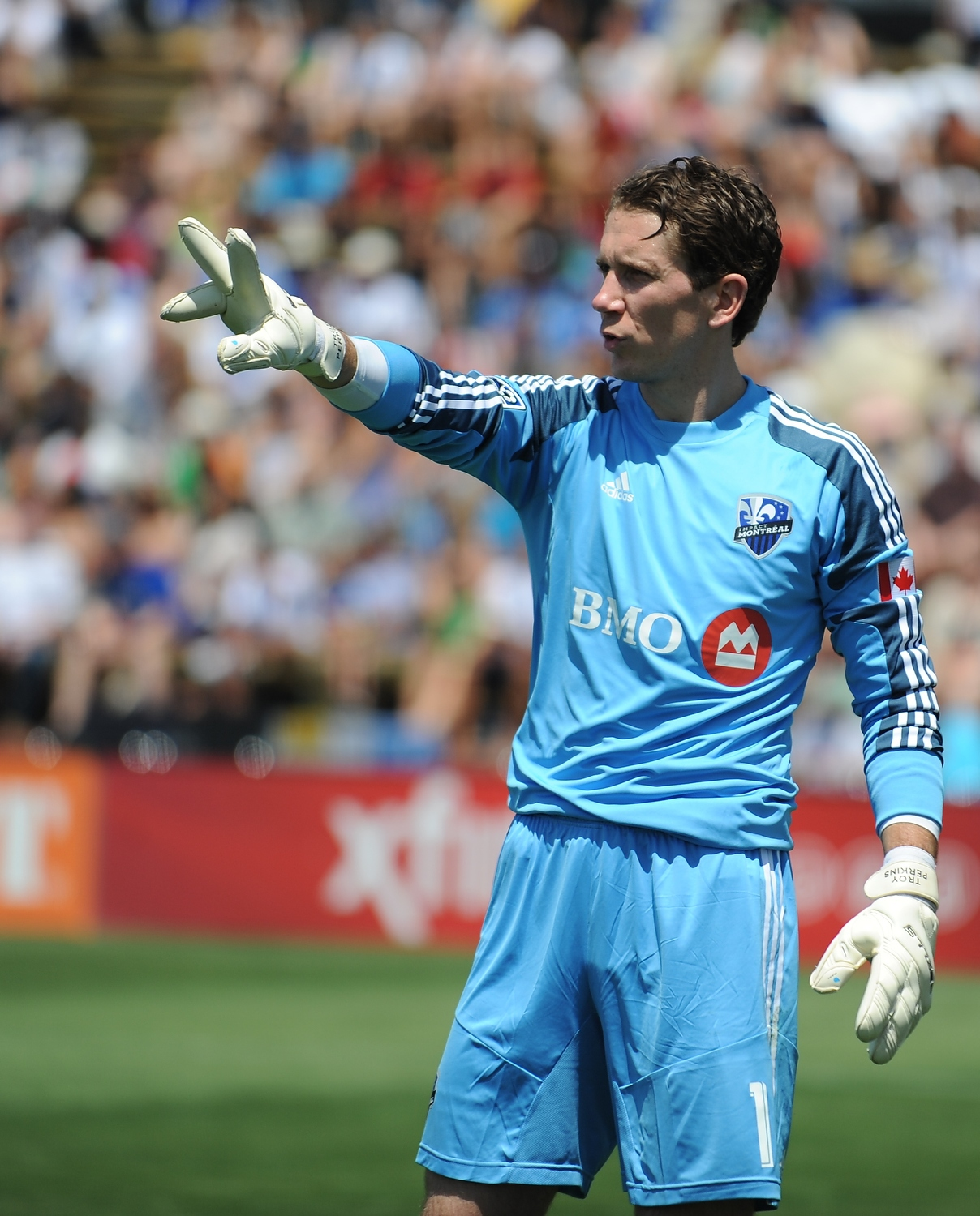 Montreal Impact goalkeeper Troy Perkins plays a Major League Soccer match against the San Jose Earthquakes on 4 May 2013 at Buck Shaw Stadium.